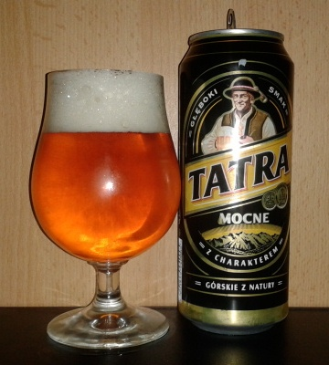 Tatra Mocne (.50 liter can + unrelated glass)